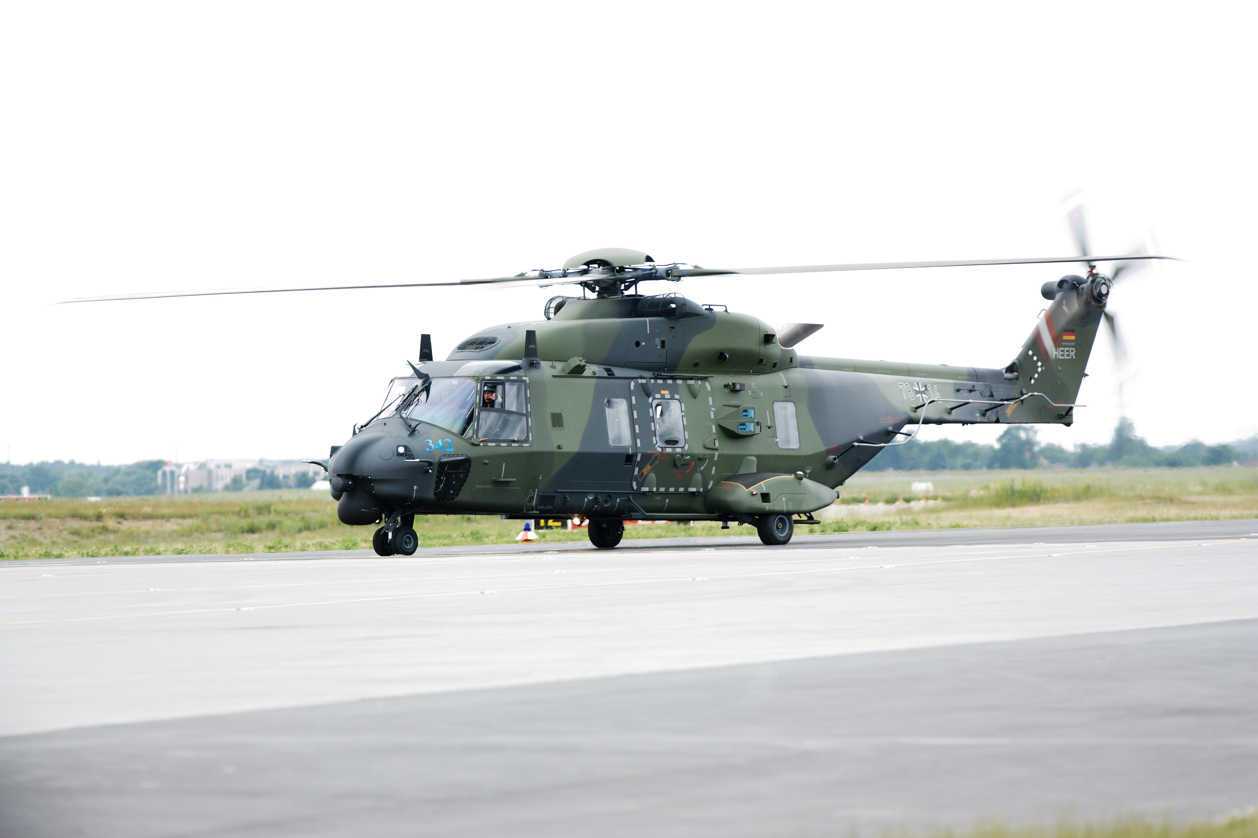 NH 90 Military Helicopter NH 90 at airshow ILA 2010, Berlin, Germany.